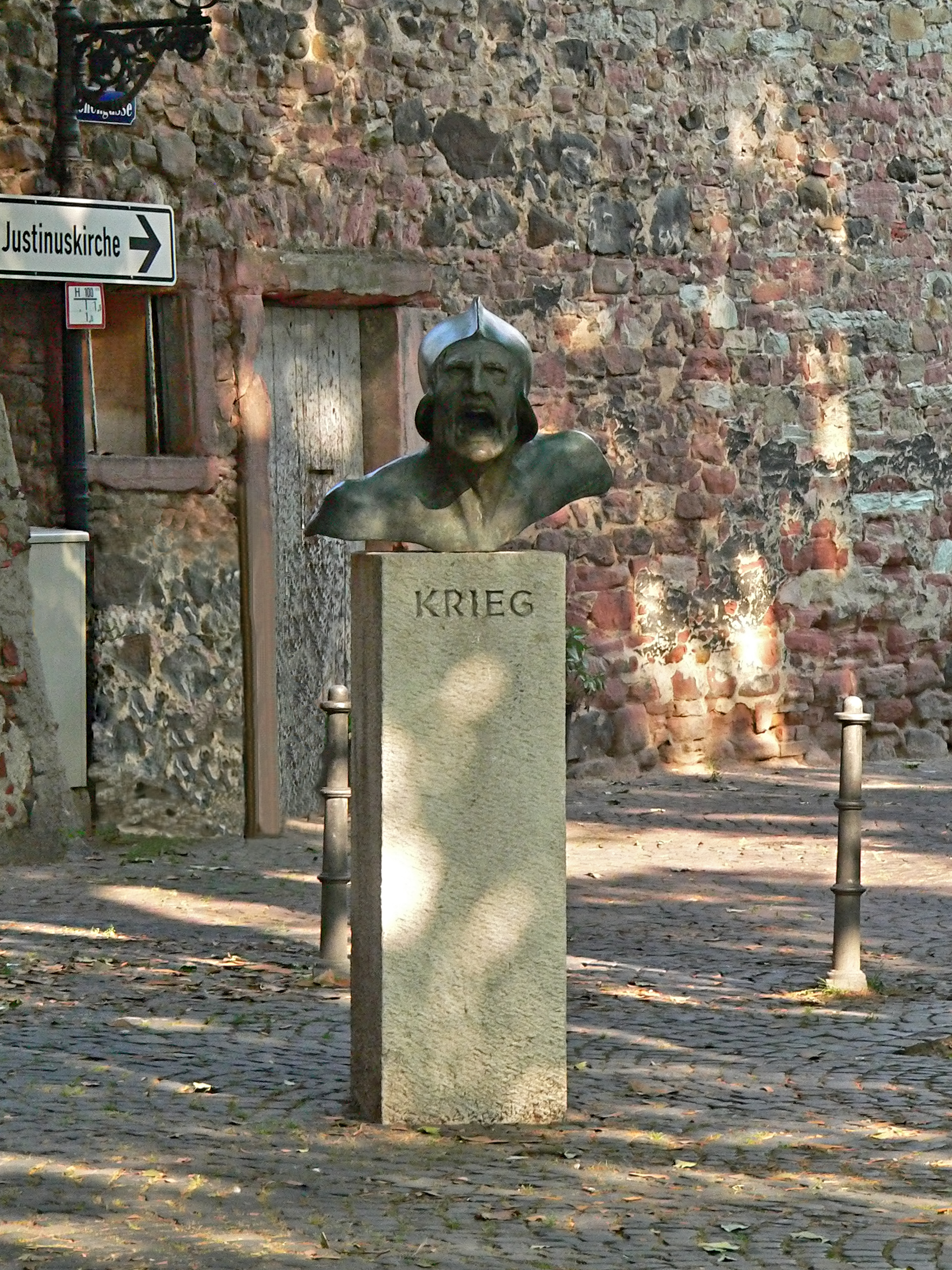 Richard Biringer's bronze „War“ from 1928 near the Höchst market place. The original sculpture had been destroyed by the Nazis and was recasted in 1982.